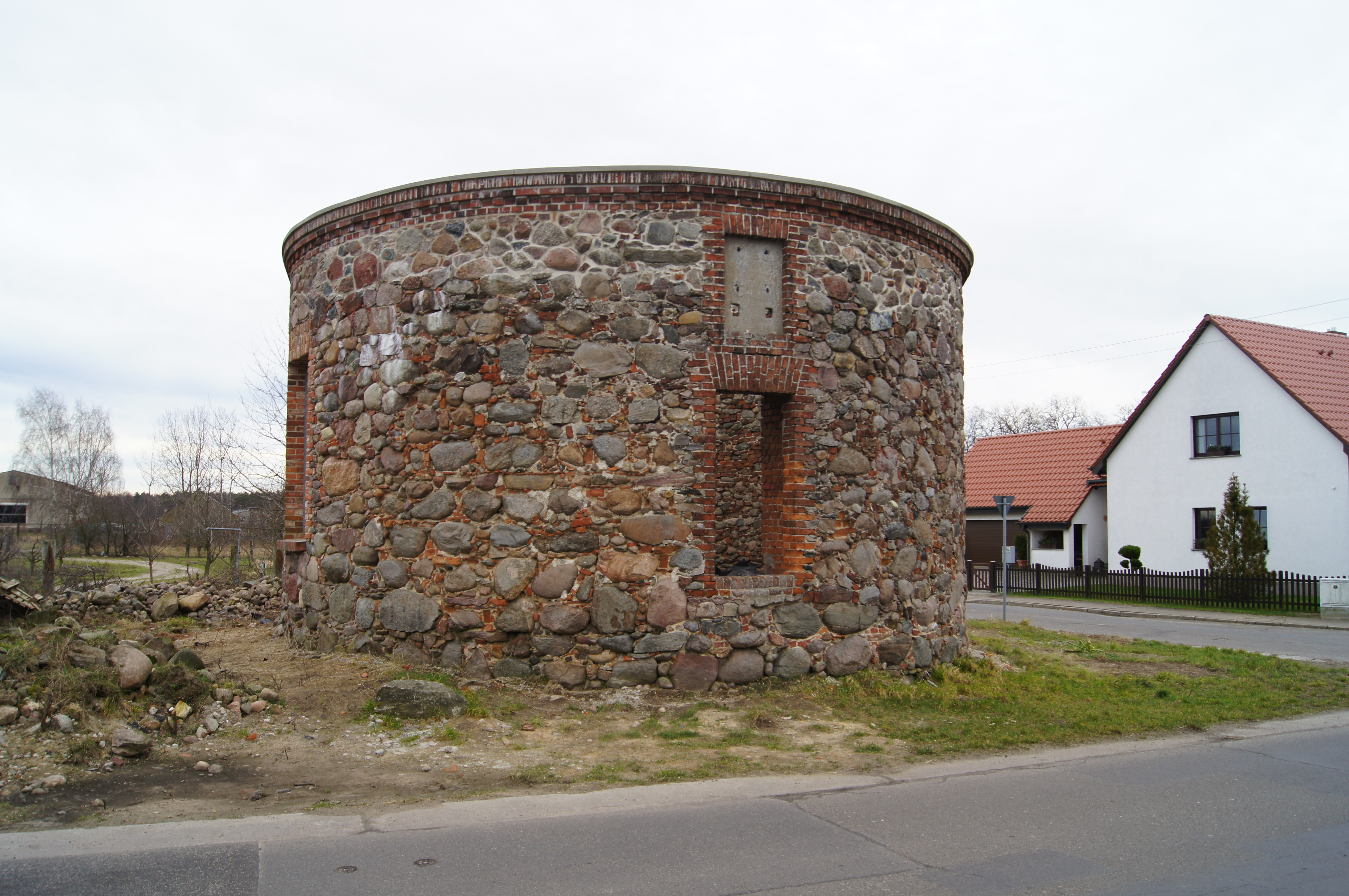 Bismarck Tower in Lichtenberg (Frankfurt (Oder)), Brandenburg, Germany